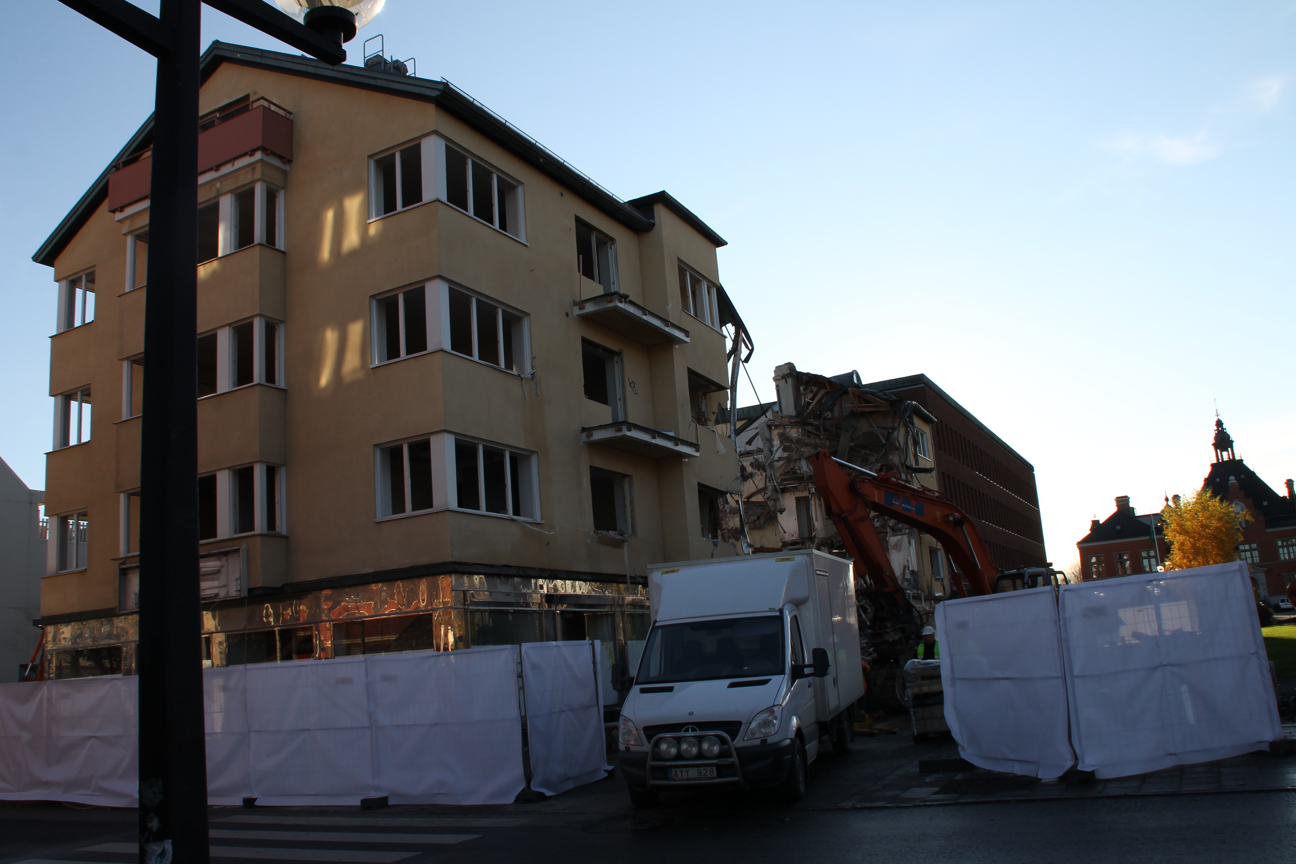 "Thornberska" building in Umeå, Sweden. Demolition in progress.